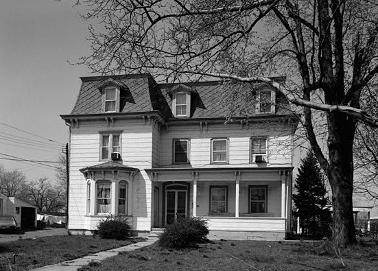 T. Thomas Fortune House, 94 West Bergen Place, Red Bank (Monmouth County, New Jersey) cropped This file comes from the Historic American Buildings Survey (HABS), Historic American Engineering Record (HAER) or Historic American Landscapes Survey (HALS). These are programs of the National Park Service established for the purpose of documenting historic places. Records consist of measured drawings, archival photographs, and written reports. When reusing please credit: Library of Congress, Prints & Photographs Division, NJ,13-REBA,1-1 This tag does not indicate the copyright status of the attached work. A normal copyright tag is still required. See Commons:Licensing. This work is in the public domain in the United States because it is a work prepared by an officer or employee of the United States Government as part of that person’s official duties under the terms of Title 17, Chapter 1, Section 105 of the US Code. Note: This only applies to original works of the Federal Government and not to the work of any individual U.S. state, territory, commonwealth, county, municipality, or any other subdivision. This template also does not apply to postage stamp designs published by the United States Postal Service since 1978. (See § 313.6(C)(1) of Compendium of U.S. Copyright Office Practices). It also does not apply to certain US coins; see The US Mint Terms of Use. This file has been identified as being free of known restrictions under copyright law, including all related and neighboring rights. Object location40° 20′ 29″ N, 74° 04′ 26″ W